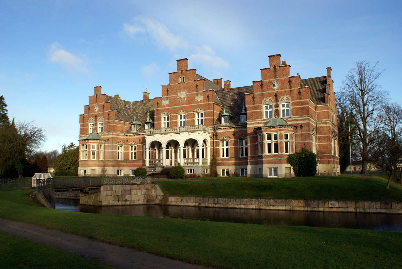 Fuglsang, a mansion on the Danish island Lolland